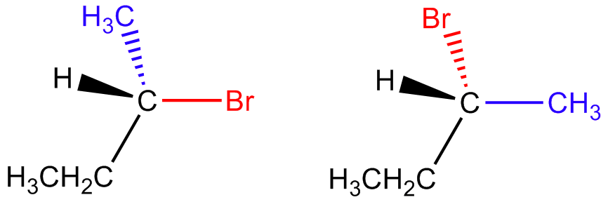 I made this in ChemDraw.